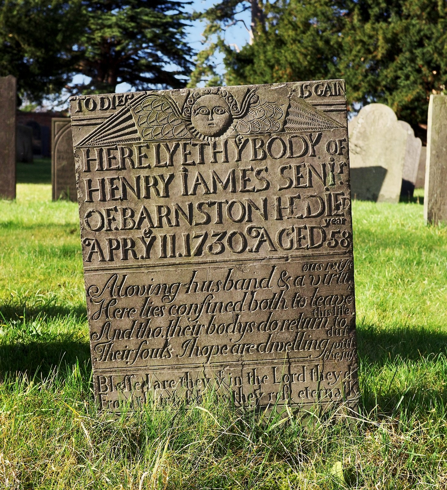 A Belvoir Angel headstone, with the characteristic stylized winged head and combination of relief and incised lettering. Belvoir Angels are found mainly in the Vale of Belvoir but are also to be found beyond it.